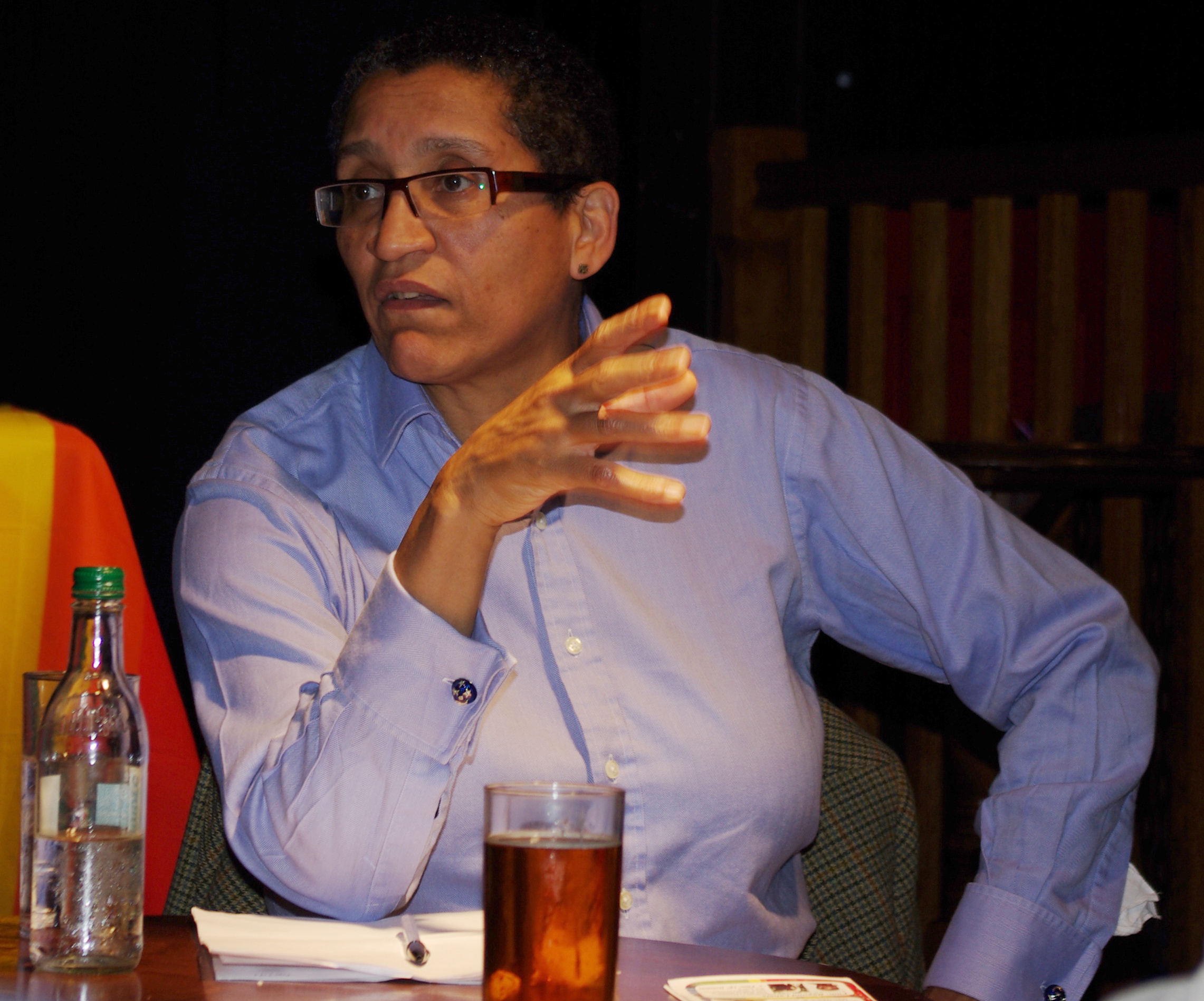 Linda Bellos, LGBT and feminist campaigner, speaking at Croydon Area Gay Society, Croydon, South London, during Black History Month 2010.